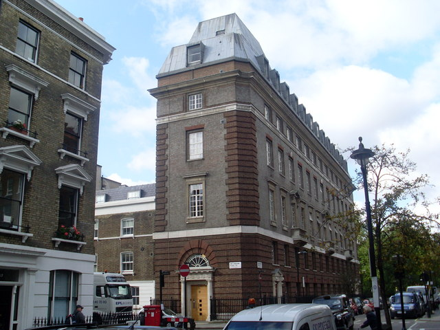 Marylebone Telephone Exchange Located at 11 Nottingham Place at the corner with Nottingham Street, this 1920s TE had HUNter and WELbeck numbers until the late 1960s. Now it has 0207-224,467,486,487 and 935 numbers. Also, the building now has private flats. Its postcode is W1U 5LE.